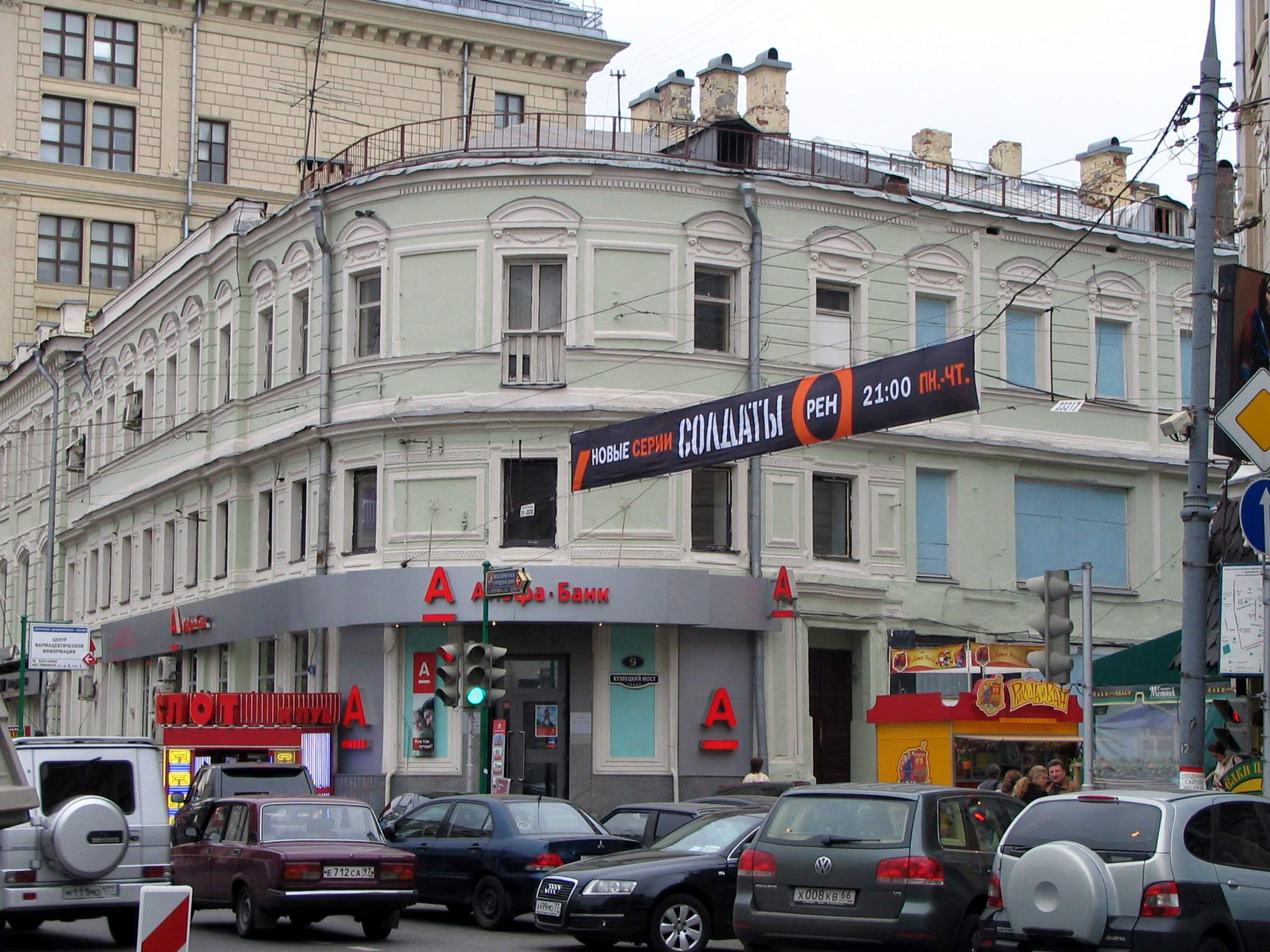 House on the corner of Neglinnaya str and Kuzhnetsky most str, Moscow